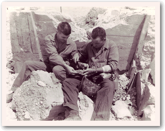 Future Brigadier general Austin C. Shofner shown here on the right as lieutenant colonel and commanding officer of 3rd Battalion, 5th Marines during the battle of Peleliu, September 1944.